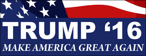 as